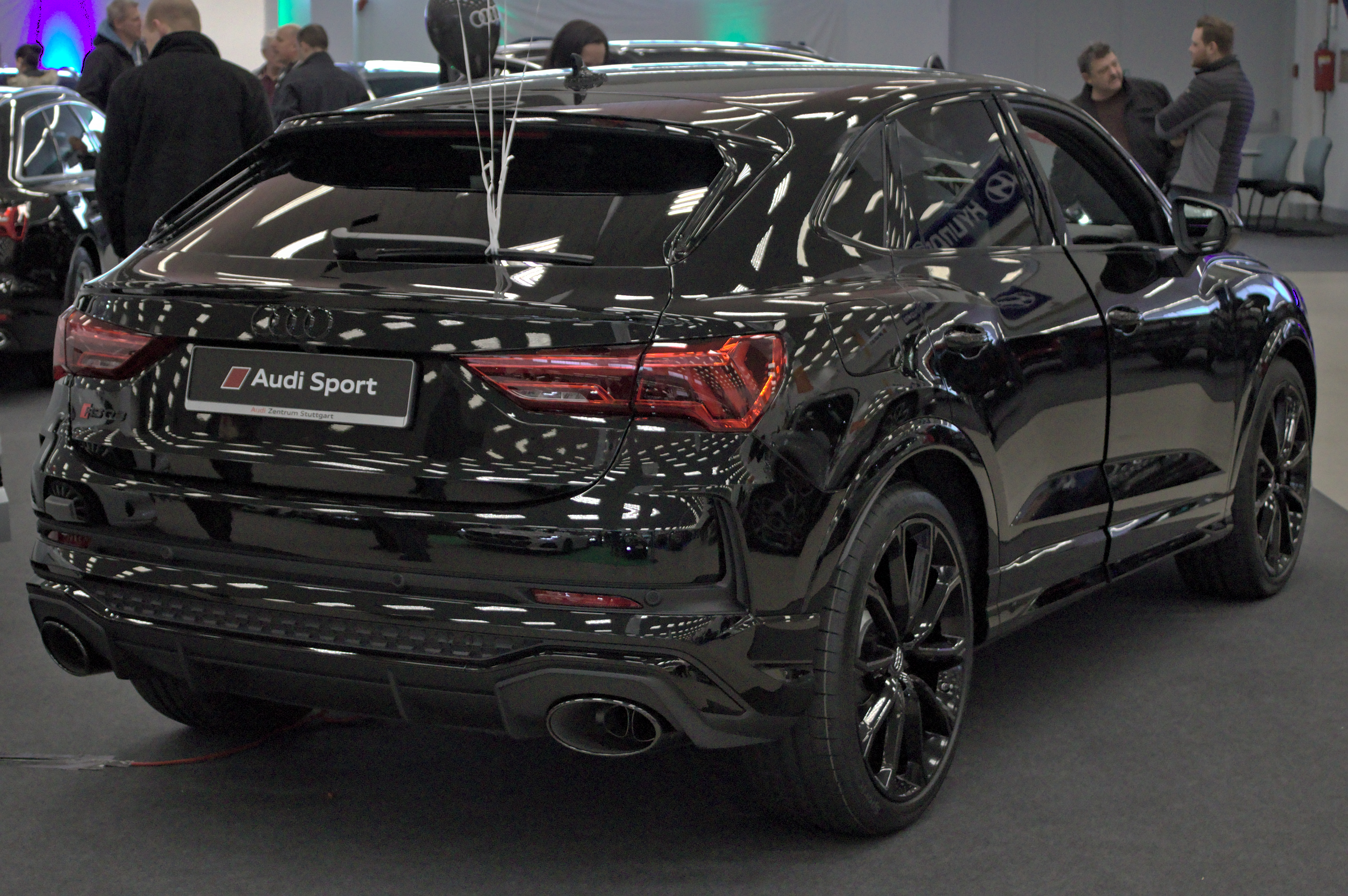 Audi_RS_Q3_Sportback_Sindelfingen_2020